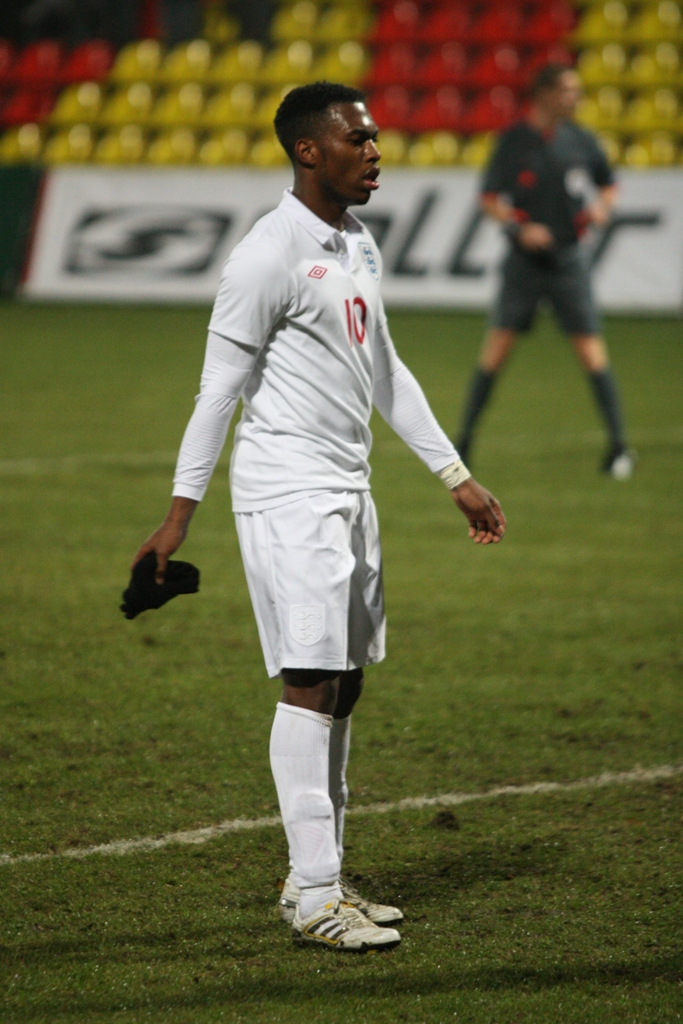 Daniel Sturridge playing for England U21